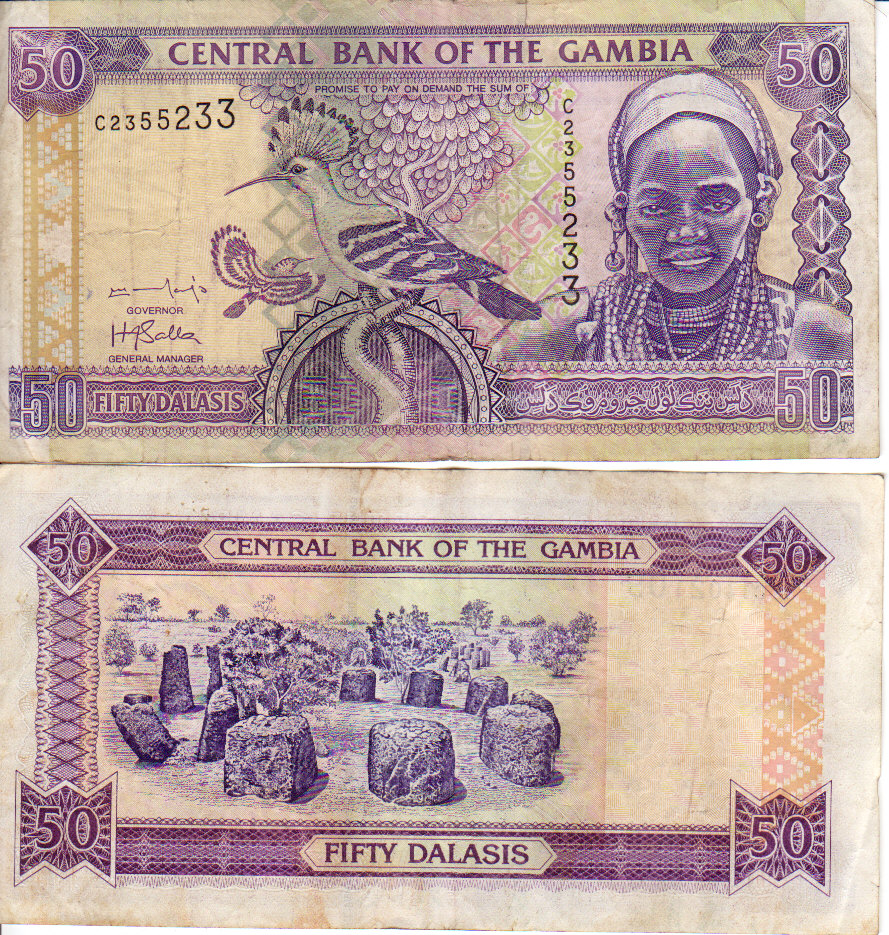 Gambia bank note, 50 dalasi, observe and reverse Scan from own collection